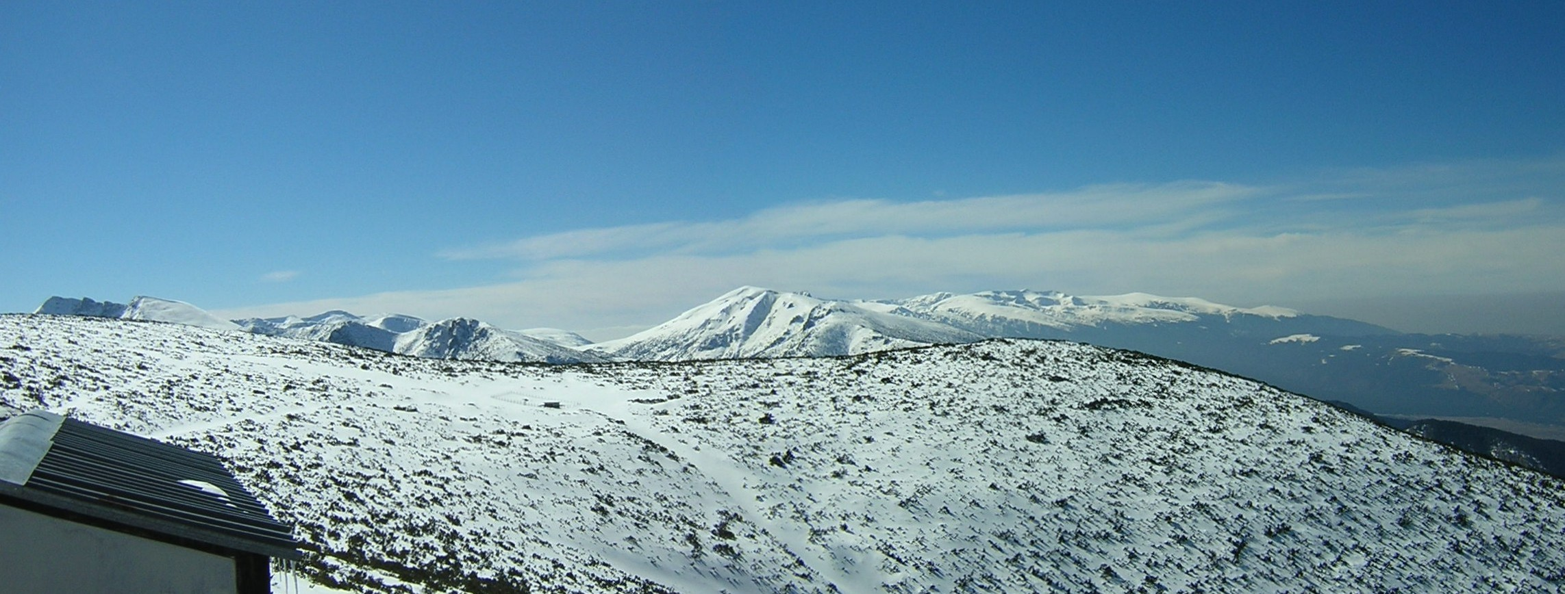 Panorama of Northwest Rila in winter, from Yastrebets.